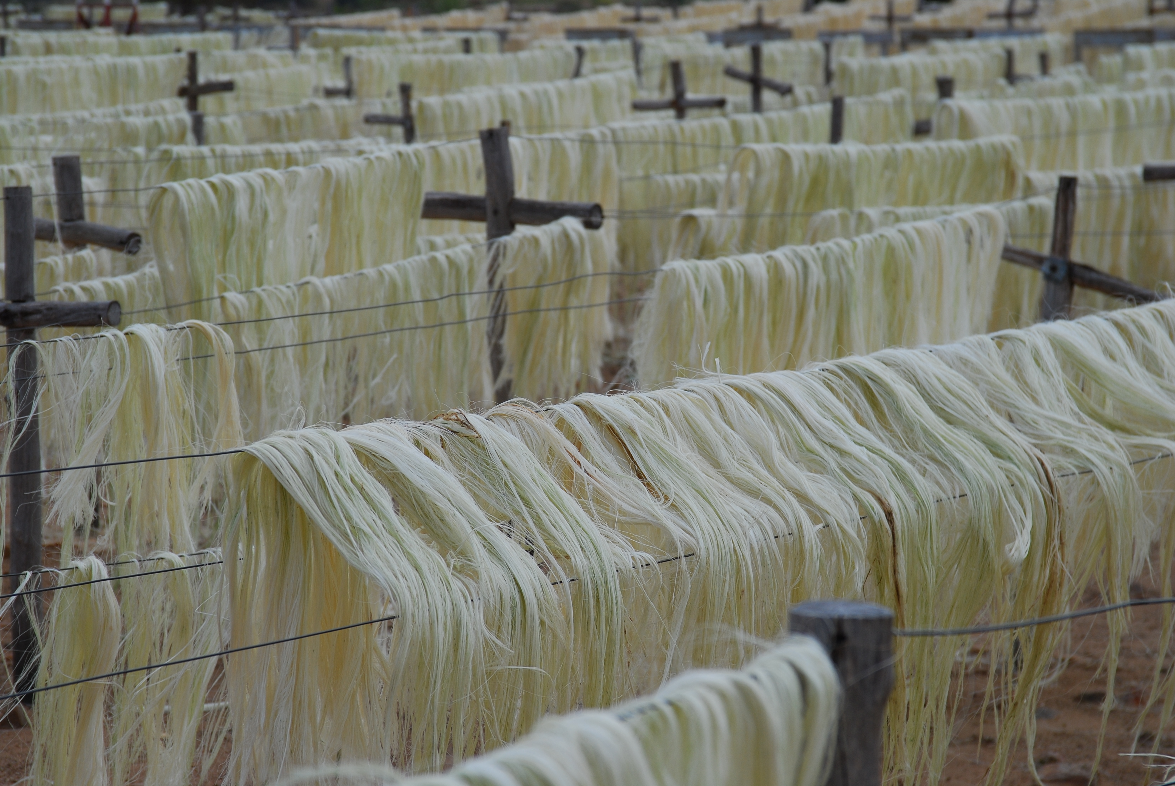 Drying fibres on a sisal-farm in Madagascar. Photo by Jonathan Talbot, World Resources Institute, 2007.